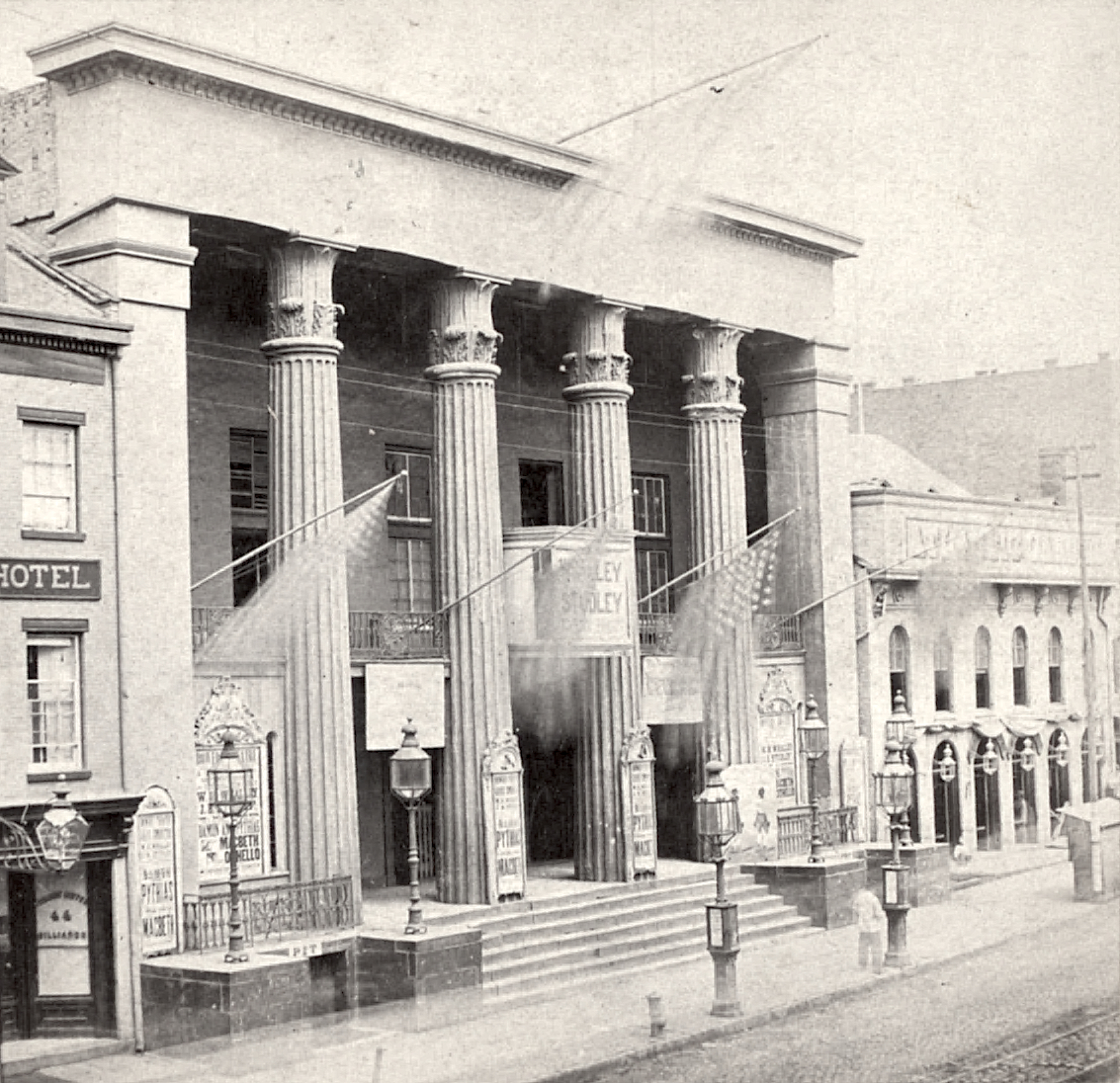 Jpg version of File:Old Bowery Theatre, Bowery, N.Y, from Robert N. Dennis collection of stereoscopic views - crop 2.png